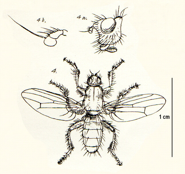 Coelopa frigida from Walker Insecta Brittanica Diptera